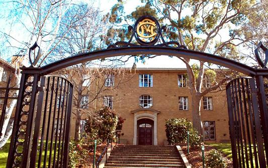 Taken with digital camera, cropped with paint.